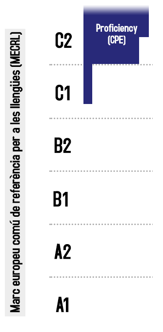 Proficiency i el Marc europeu comú de referència per a les llengües.